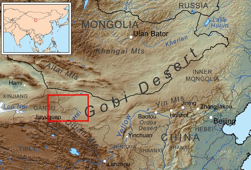 A map of north china location the approximate location of the Badain Jaran desert. This also shows around how large the desert is compared to its surroundings